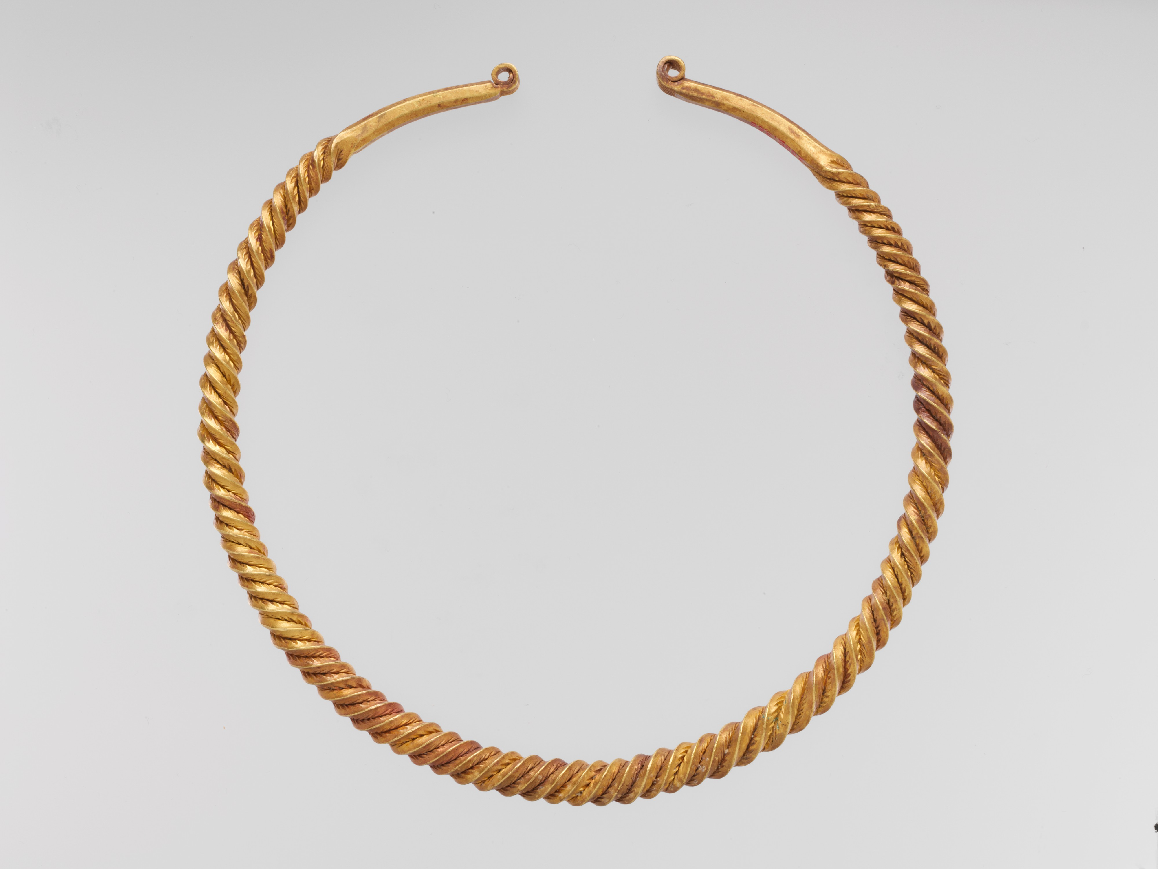 Celtic; Neck Ring; Torque; Metalwork-Gold